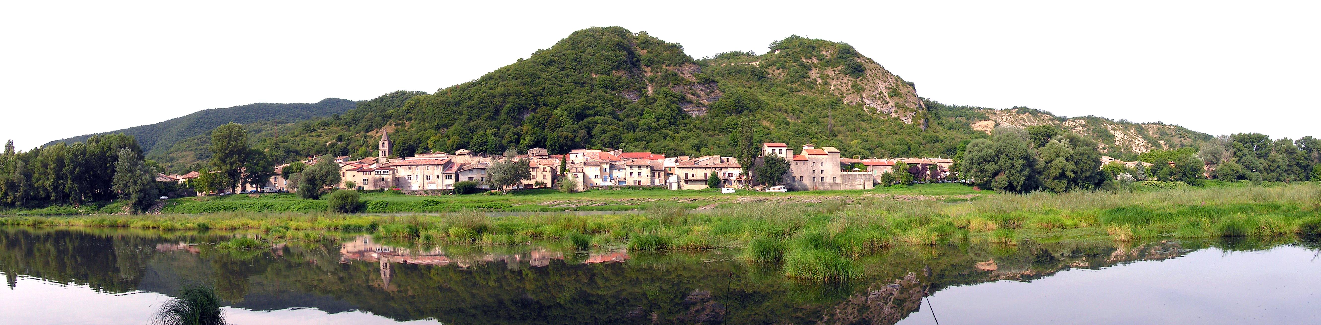 BAIX